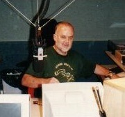 Studio in BBC Yalding House, near BBC Broadcasting House in central London